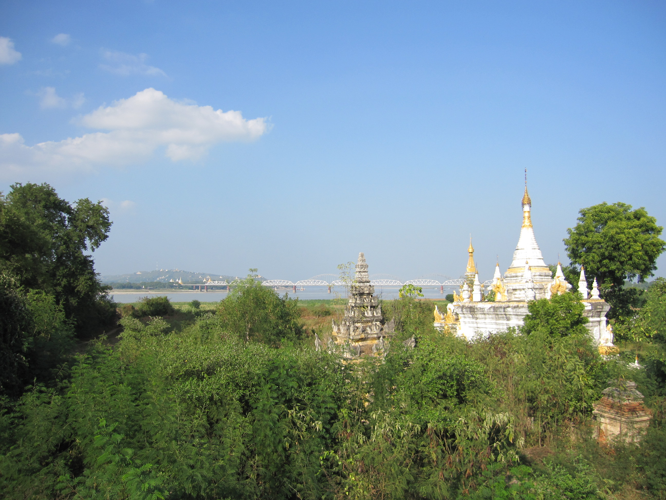 The Ava Bridge over the Irrawaddy - view from Ava